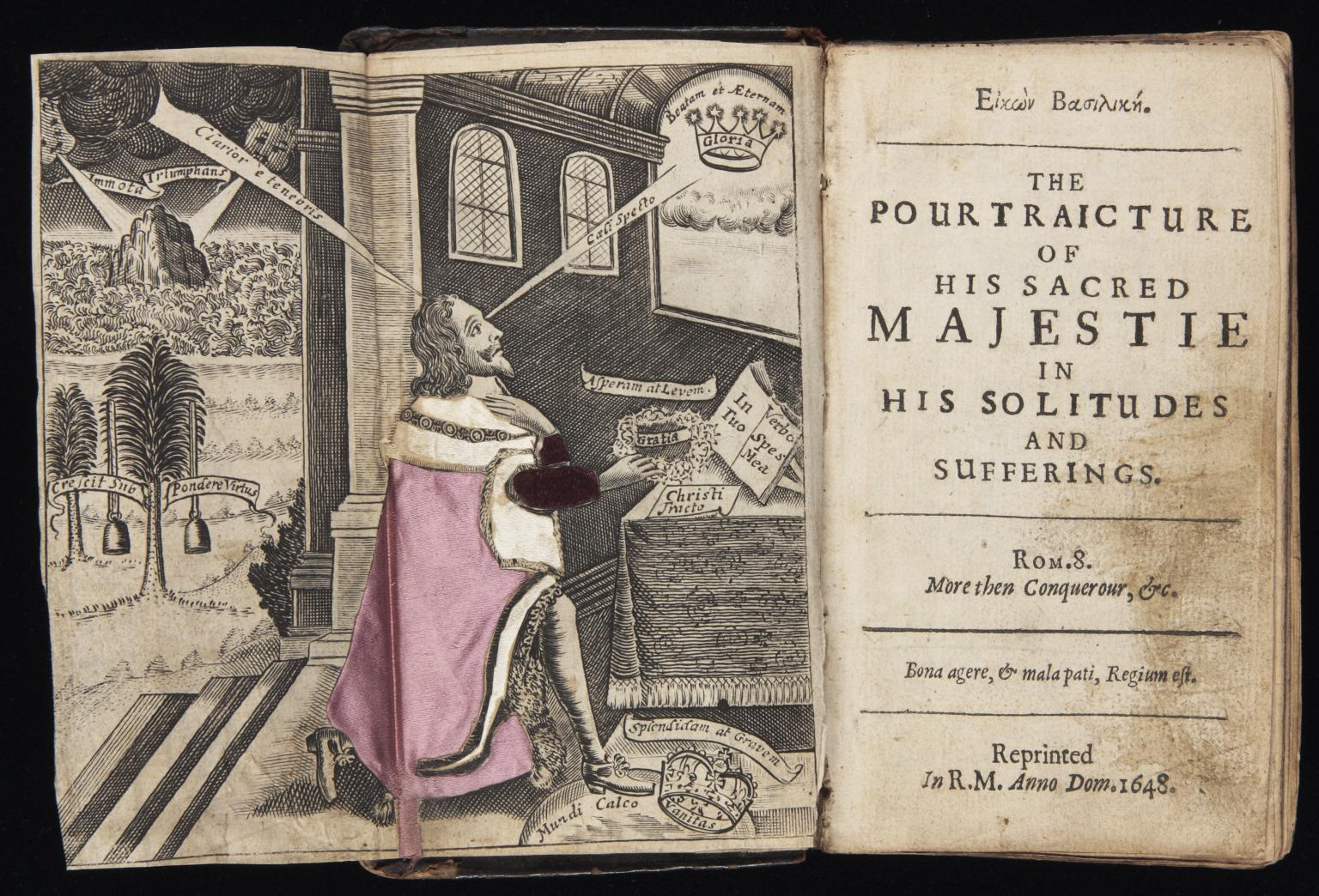 Frontispiece, Eikon Basilike: The pourtraicture of His Sacred Majestie in his solitudes and sufferings, by King Charles I of England (claimed). 14 cm x 13 cm.